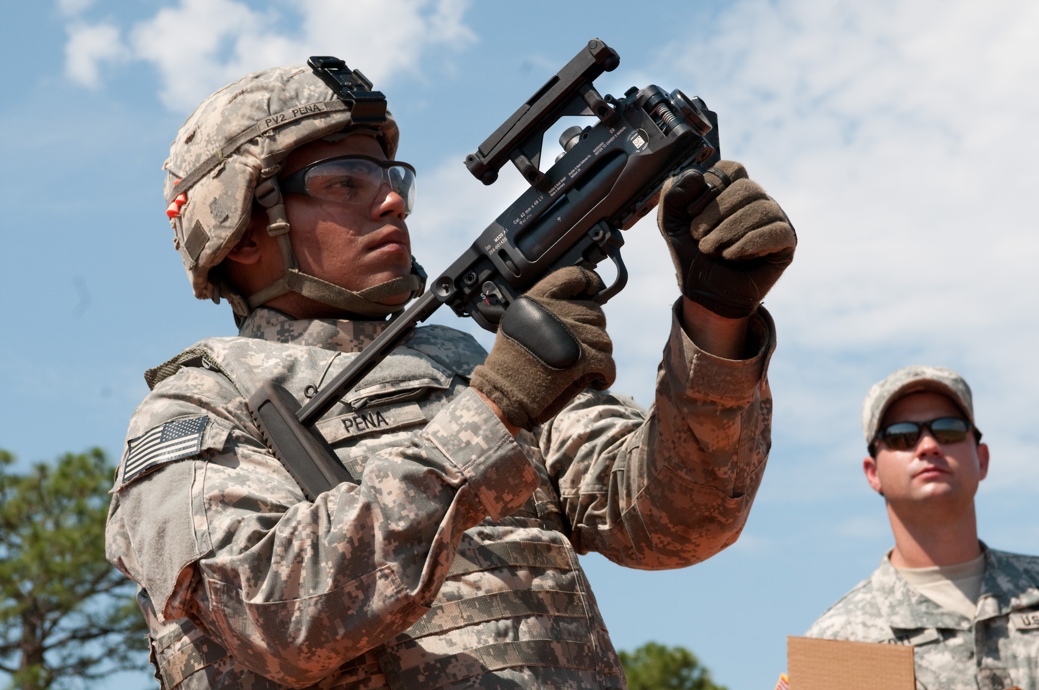 A paratrooper with 1st Brigade Combat Team, 82nd Airborne Division, fires a training round from the new M-320 grenade launcher while learning to use the weapon on a Fort Bragg, N.C., range July 1. The brigade was the first unit in the Army to receive the advanced grenade launcher that will replace the Vietnam-era M-203. See more at Fort Bragg Soldiers first to field new grenade launcher